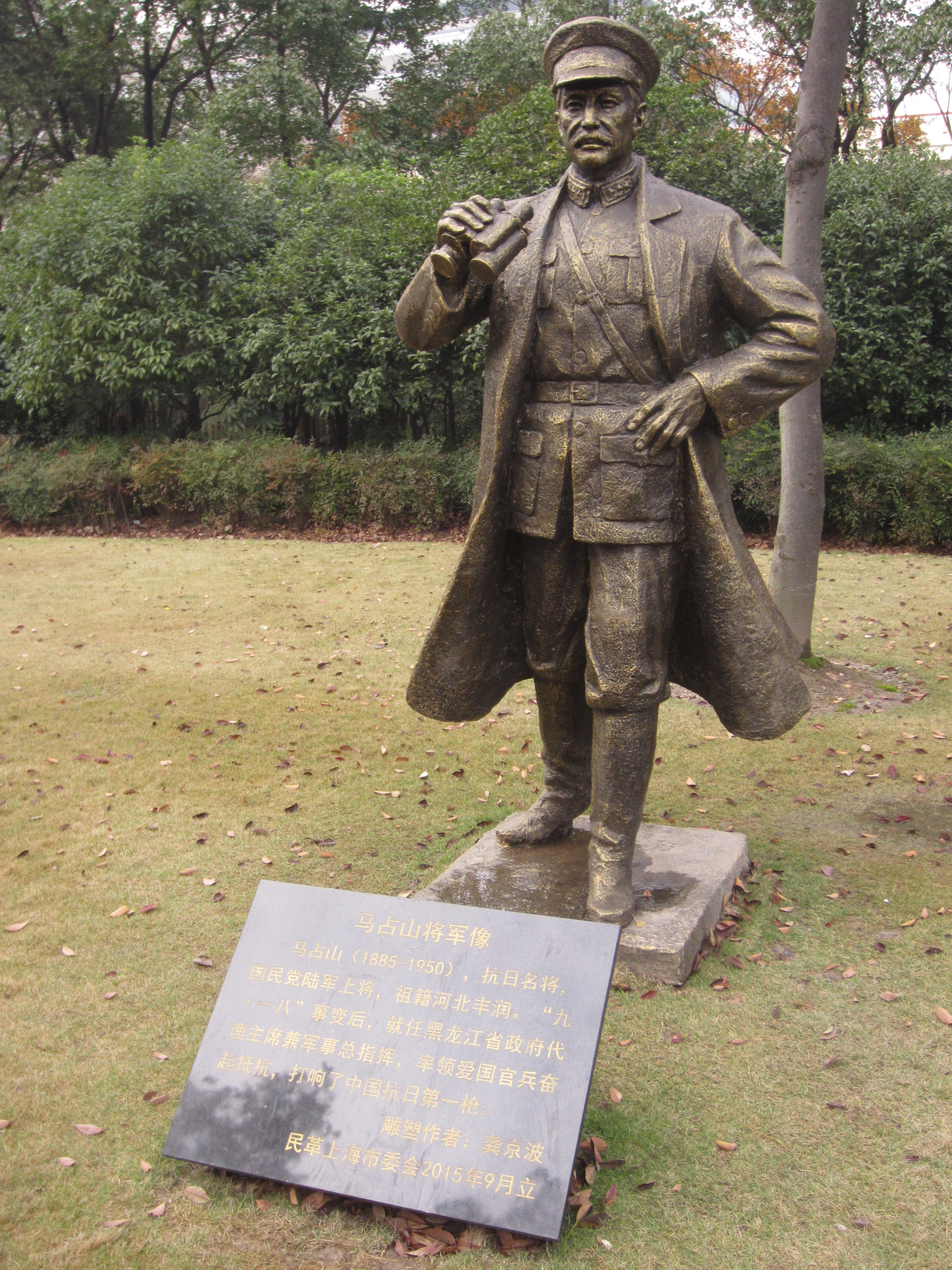 New Town Central Park, Shanghai (December 2015)